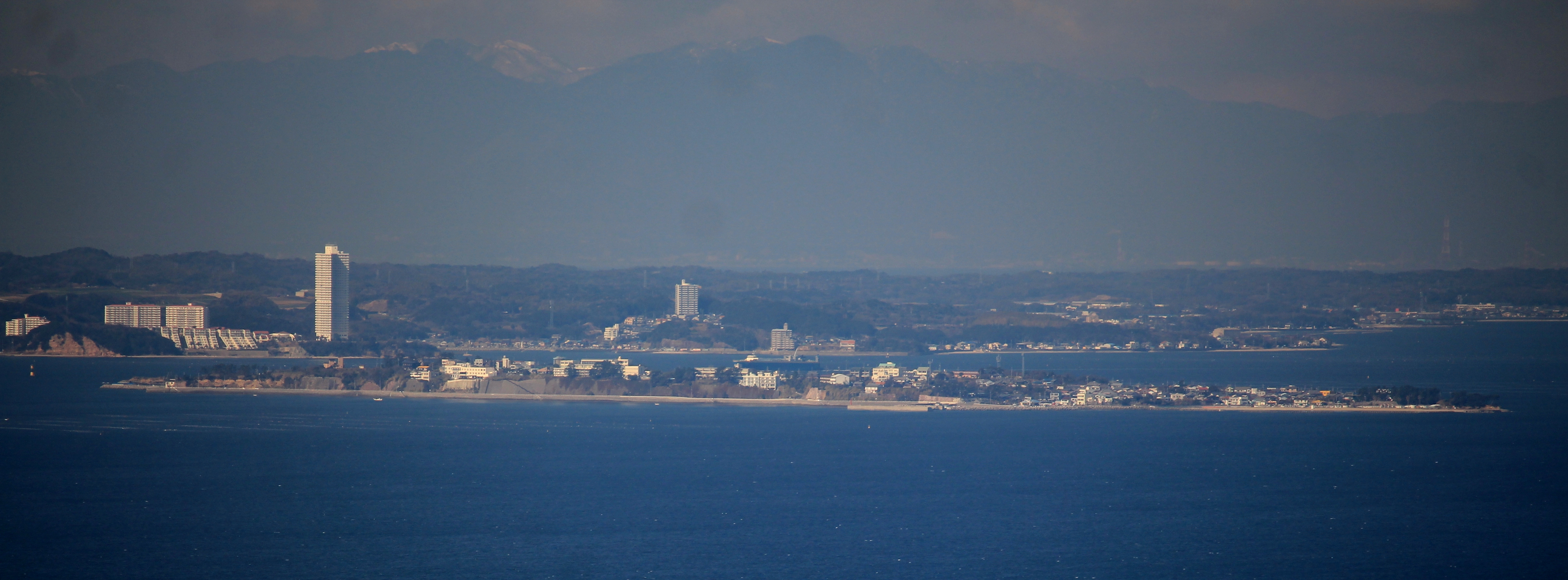 Himaka Island seen from Mount Amagoi in Aichi prefecture, Japan.